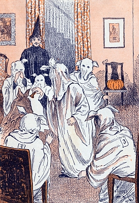 Illustration from children;s novel, Hallowe'en at Merryvale by Alice Hale Burnett. Caption:"Keep perfectly still," whispered Chuck as Hopie came toward them.